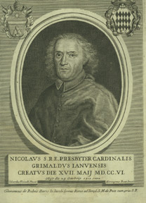 Portrait of Cardinal Nicola Grimaldi I (1645-1717).